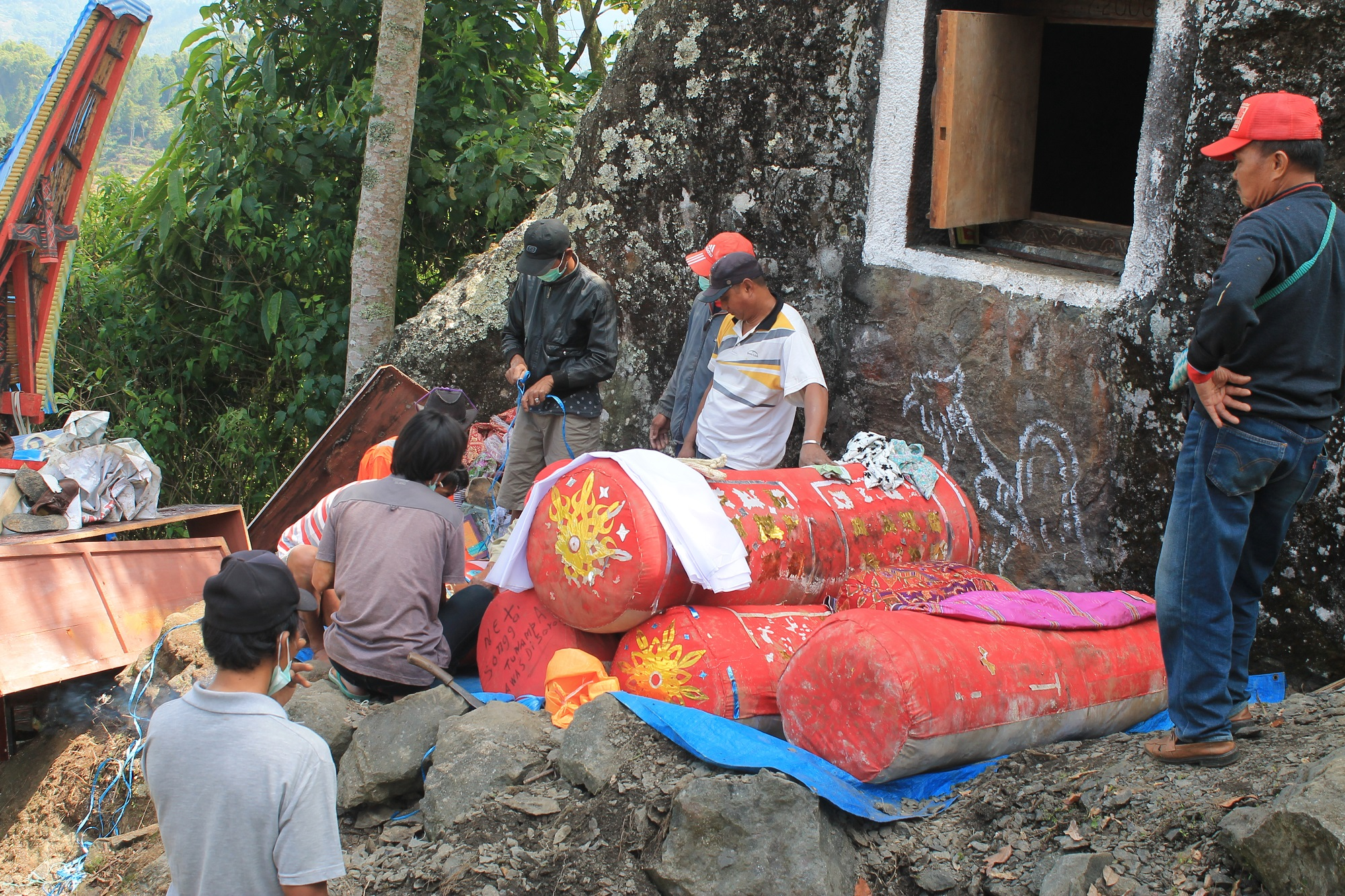 The Ma'nene ritual is a traditional ritual in Tana Toraja where the body of the Toraja family's ancestors will be replaced by the cloth. This ritual is usually held once in 3-5 years, depending on the results of the decisions of the local people or family. This Ma'Nene Ritual Location is in Pangala, Toraja